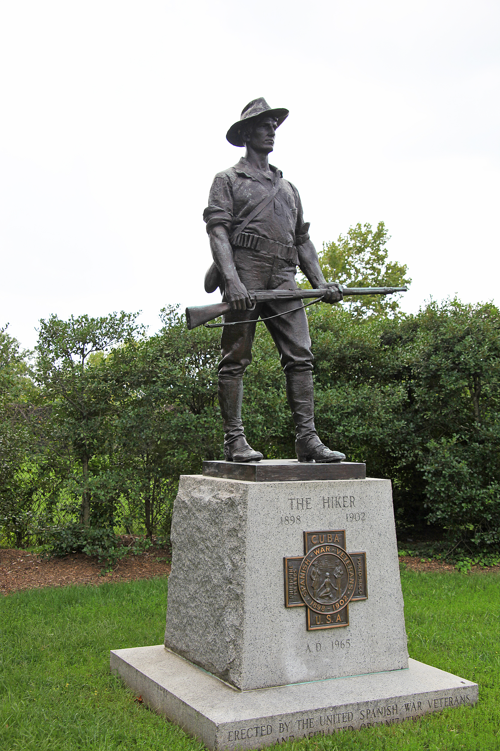 Looking southwest at "The Hiker," the Spanish War Veterans Memorial on Memorial Drive at Arlington National Cemetery in Arlington, Virginia, in the United States. The memorial refers to both the Spanish-American War and the Philippine-American War. The statue is of a soldier dressed in the uniform of the U.S. Army during these wars. Inscribed into the granite base are the name of the memorial ("The Hiker"), the dates of the conflicts, and a bronze plaque in the form of a cross listing the various theaters of the wars. Sculptor Theodora Alice Ruggles Kitson created the statue, which was first unveiled in Minnesota in May 1906. At least 50 replicas of her work were created. The Spanish War Veterans Memorial is one of these replicas. The memorial was dedicated on July 24, 1965.